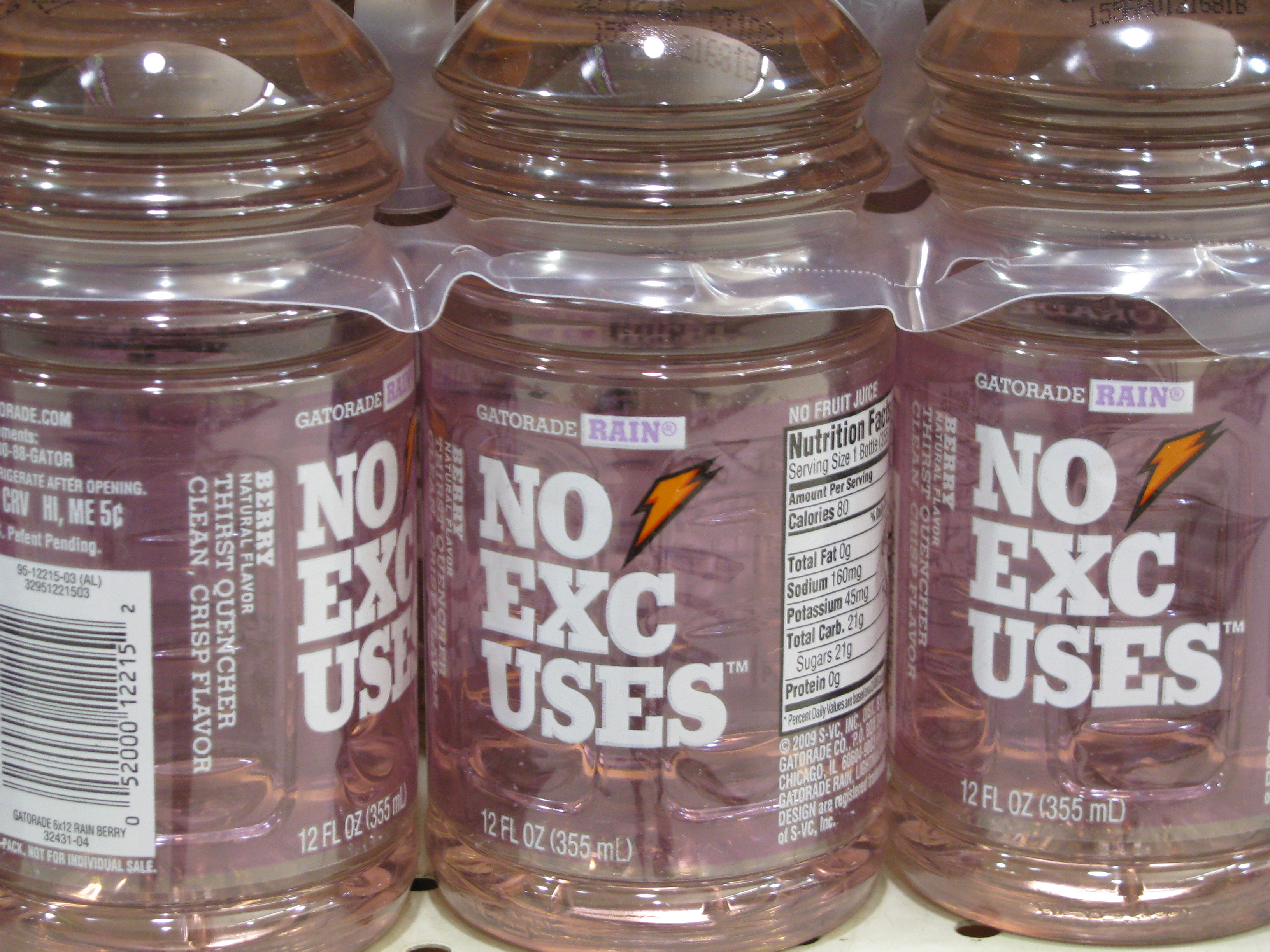 Gatorade Rain bottles lined up on a supermarket shelf. This specific flavor was discontinued in 2009.